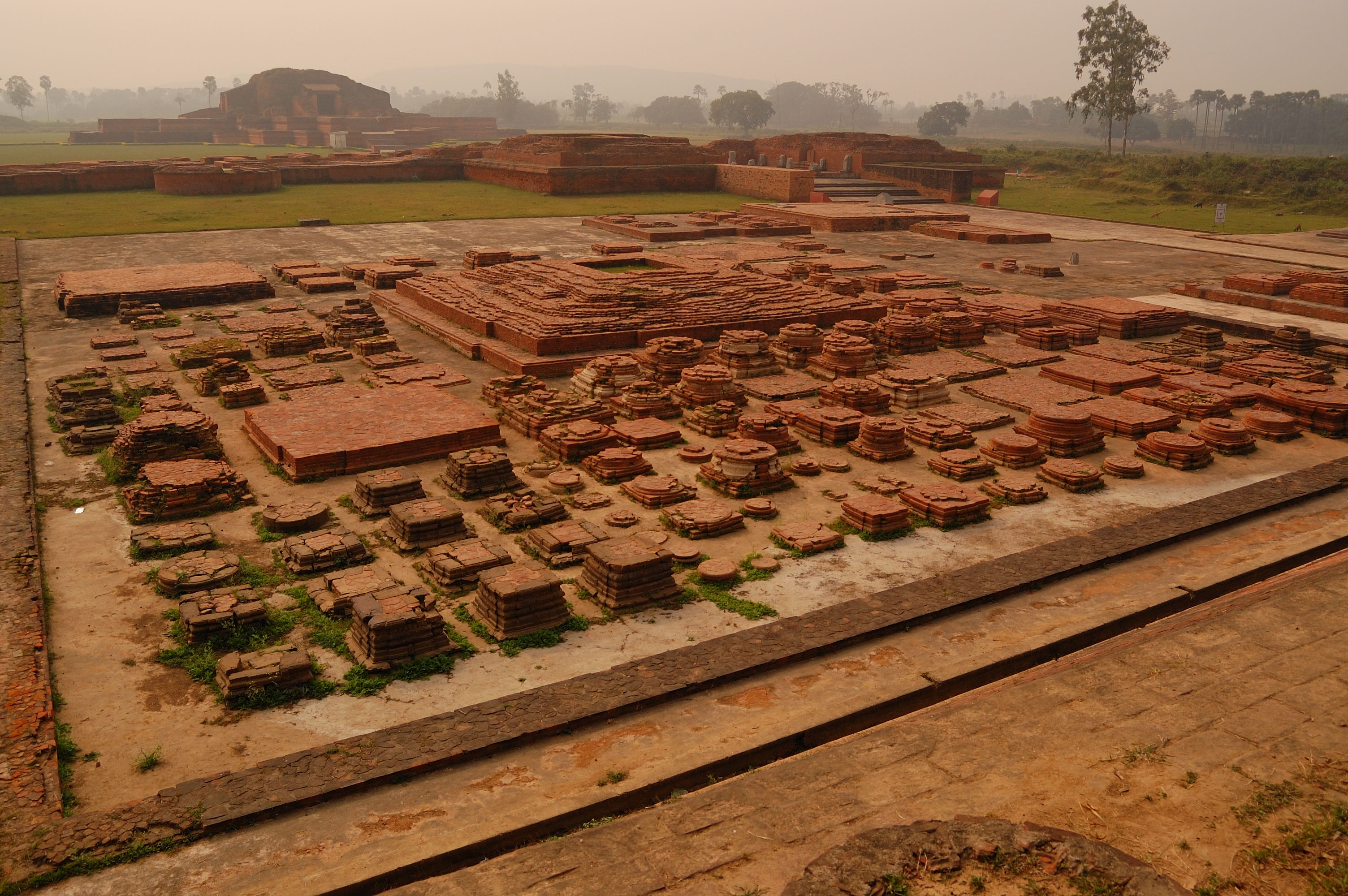 The landscape of the Vikramshila remains